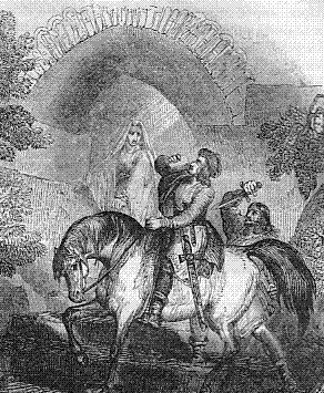 Death of Edward martyr